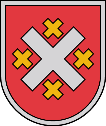 Coat of arms of Mālpils Municipality, Latvia